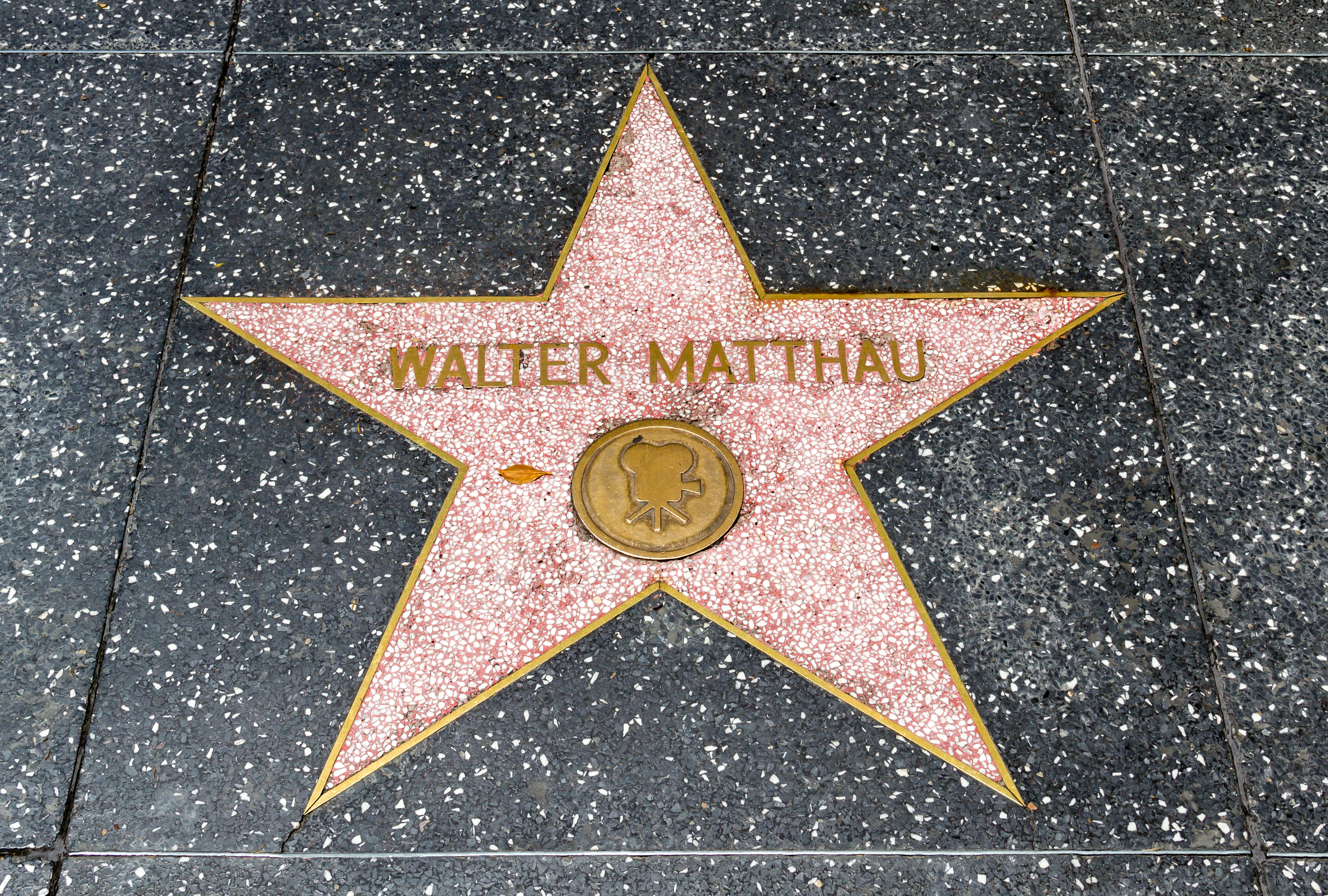 Star “Walter Matthau” at the Hollywood Boulevard in Los Angeles, California, USA